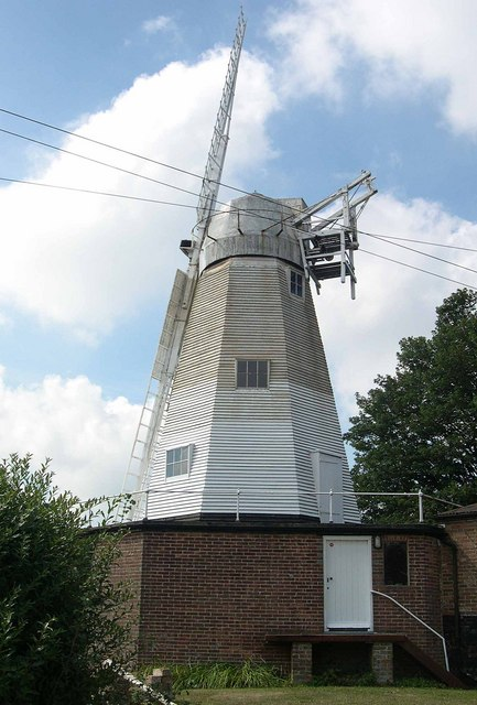 Photograph of Punnetts Town windmill